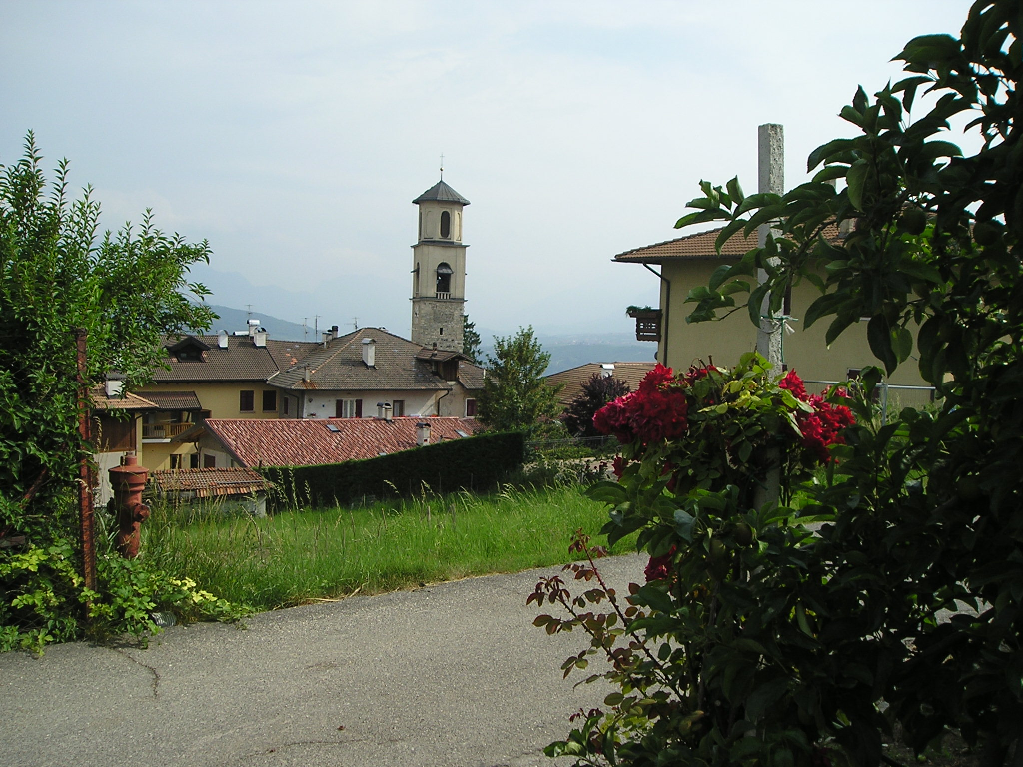 Revò and the church of Santo Stefano